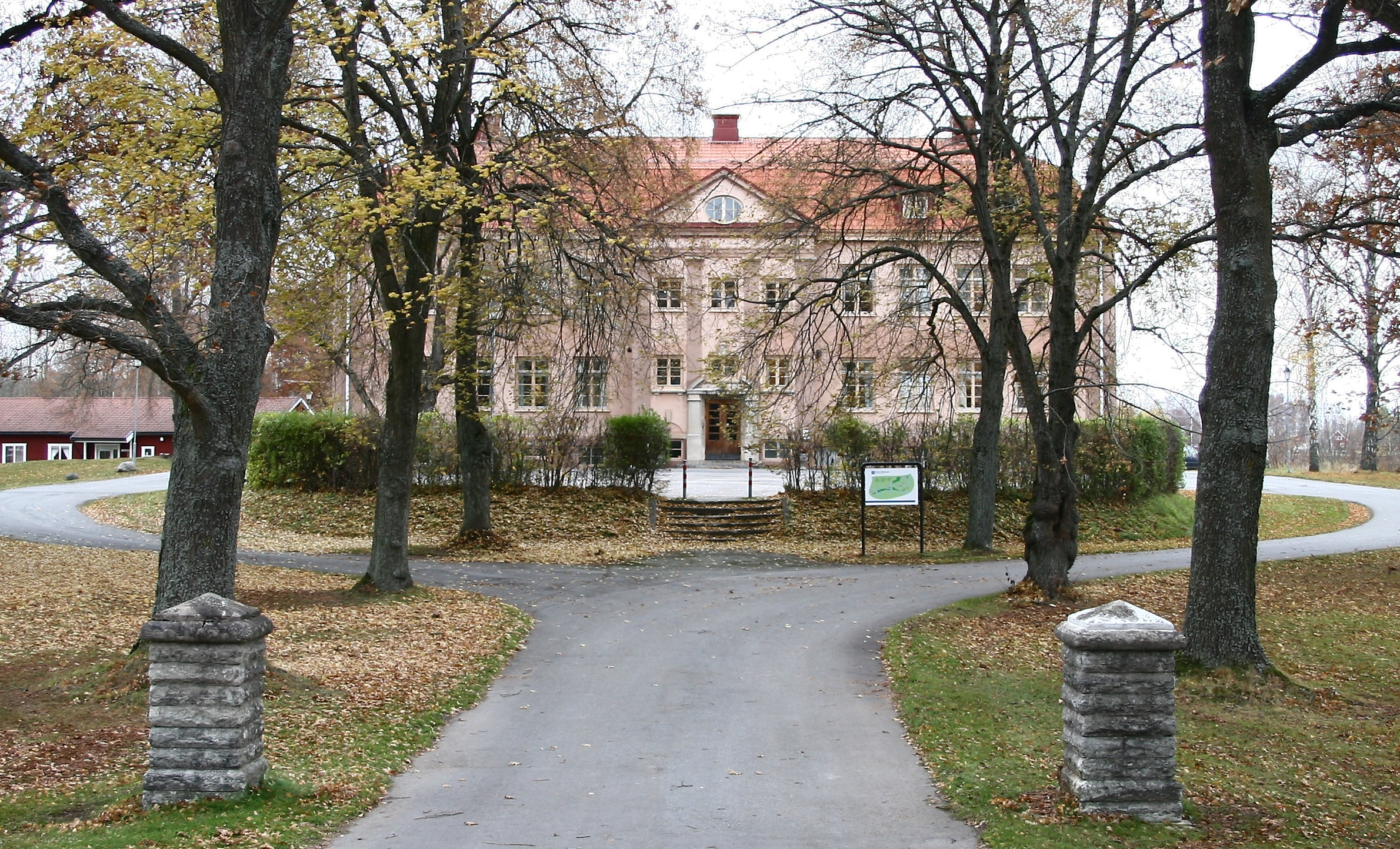 Kävesta folk high school, main building, main entrance, seen from the west.